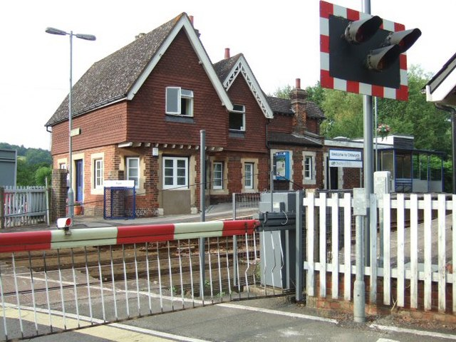 Chilworth Station and Level Crossing